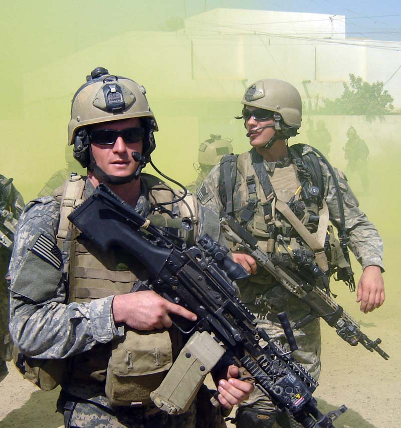 Michael A. Monsoor, left, on patrol in Iraq in 2006. Monsoor died Friday, Sept. 29, 2006 in Ramadi, Iraq, when he threw himself on a grenade to save fellow SEALs.